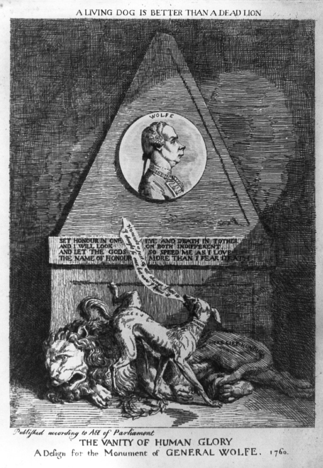 The vanity of human glory. A design for the monument of General James Wolfe. Pyramidical monument, decorated with a medallion portrait of Wolfe. At the base of the monument, a hound, wearing a collar, marked "Minden", intimating that it represents Lord George Sackville.